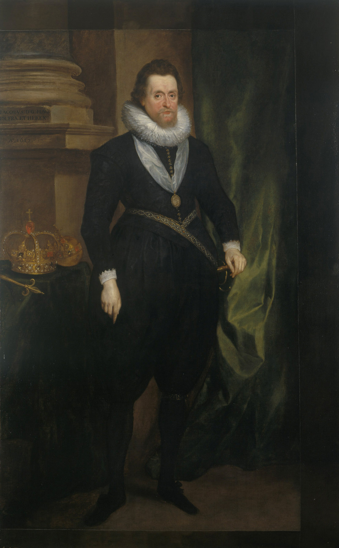 James I of England and VI of Scotland